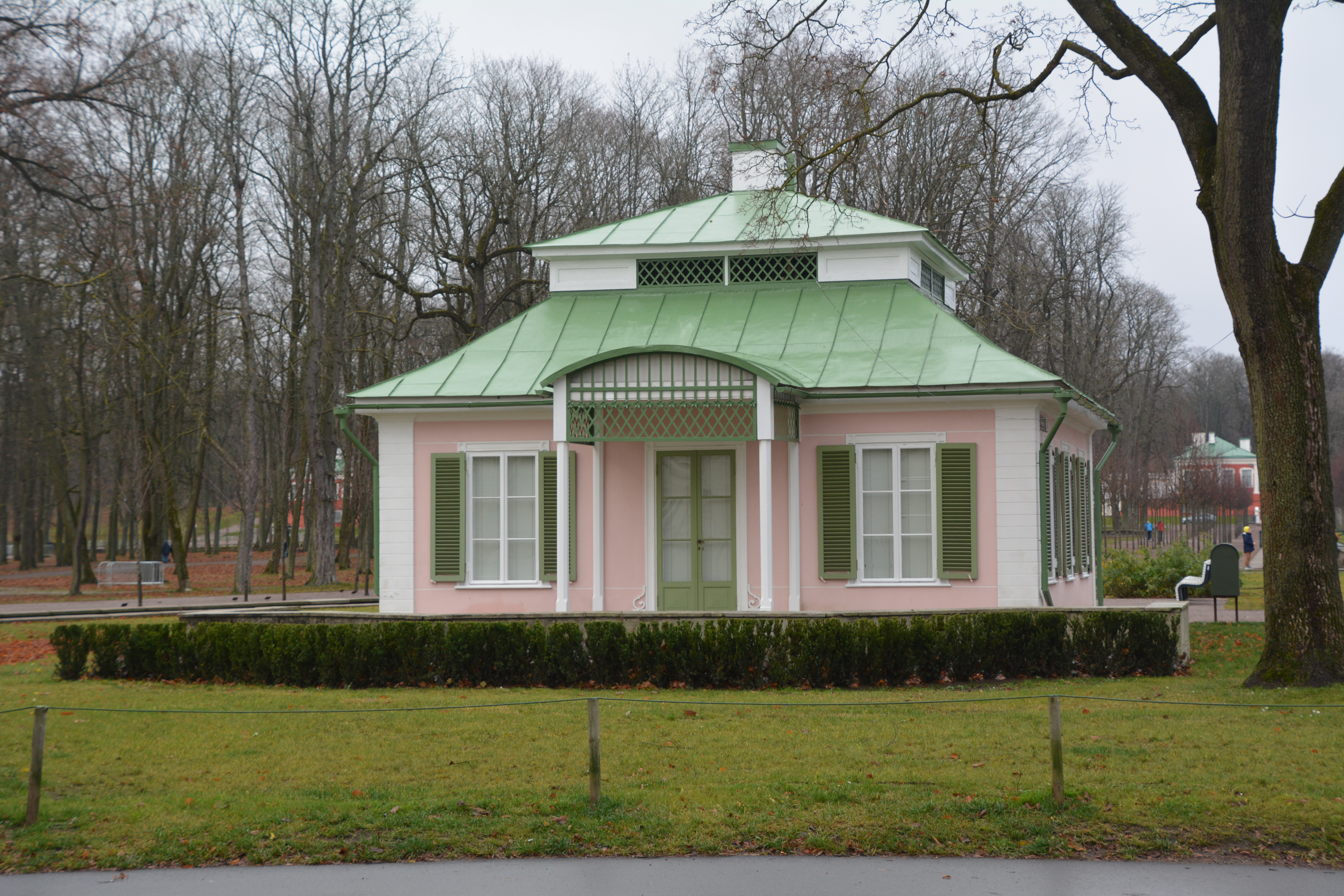 Entrance building Kadriorg Park, Tallinn, Estonia